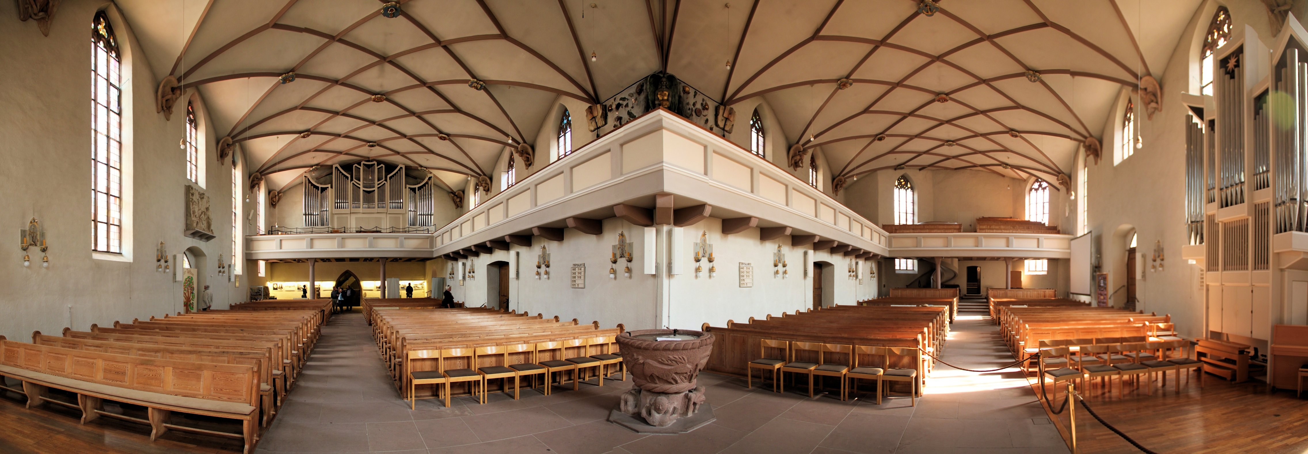 Freudenstadt: Interior of the town church, an angular church (or “composing stick“ church).